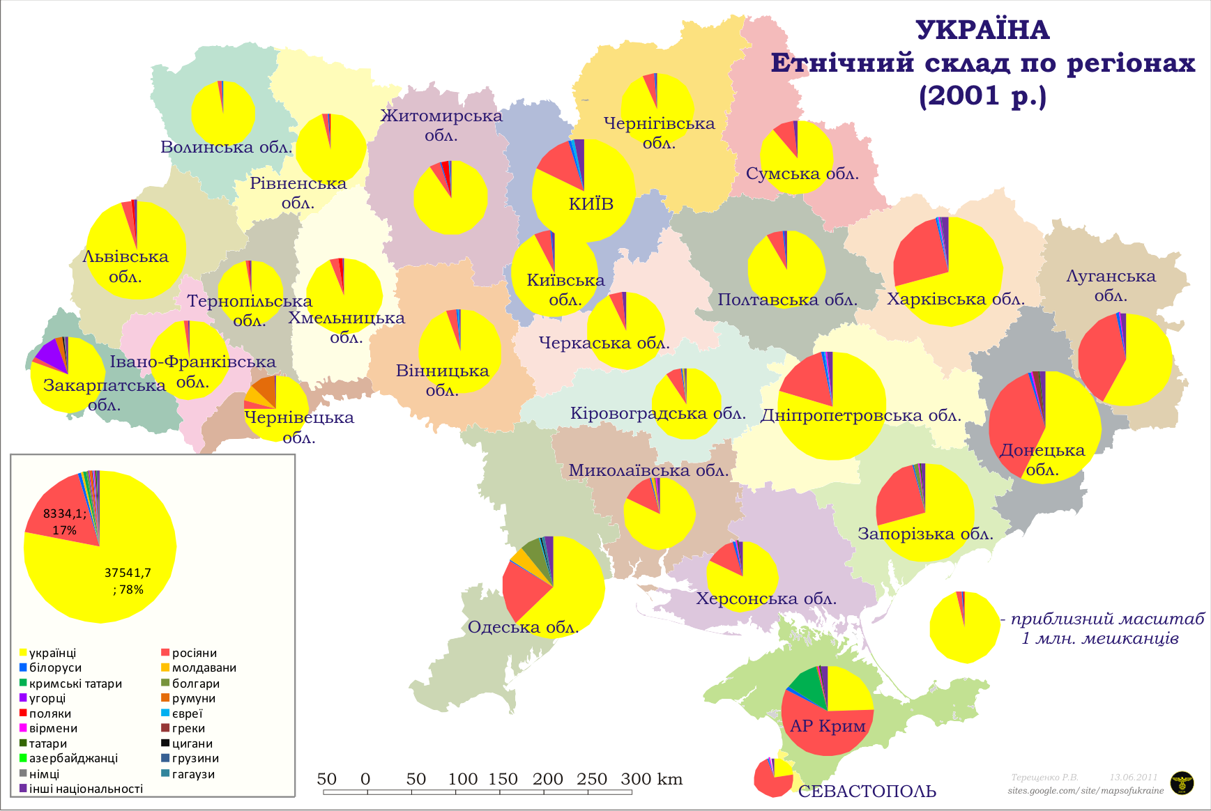 Ethnic groups in Ukraine regions according to 2001 census